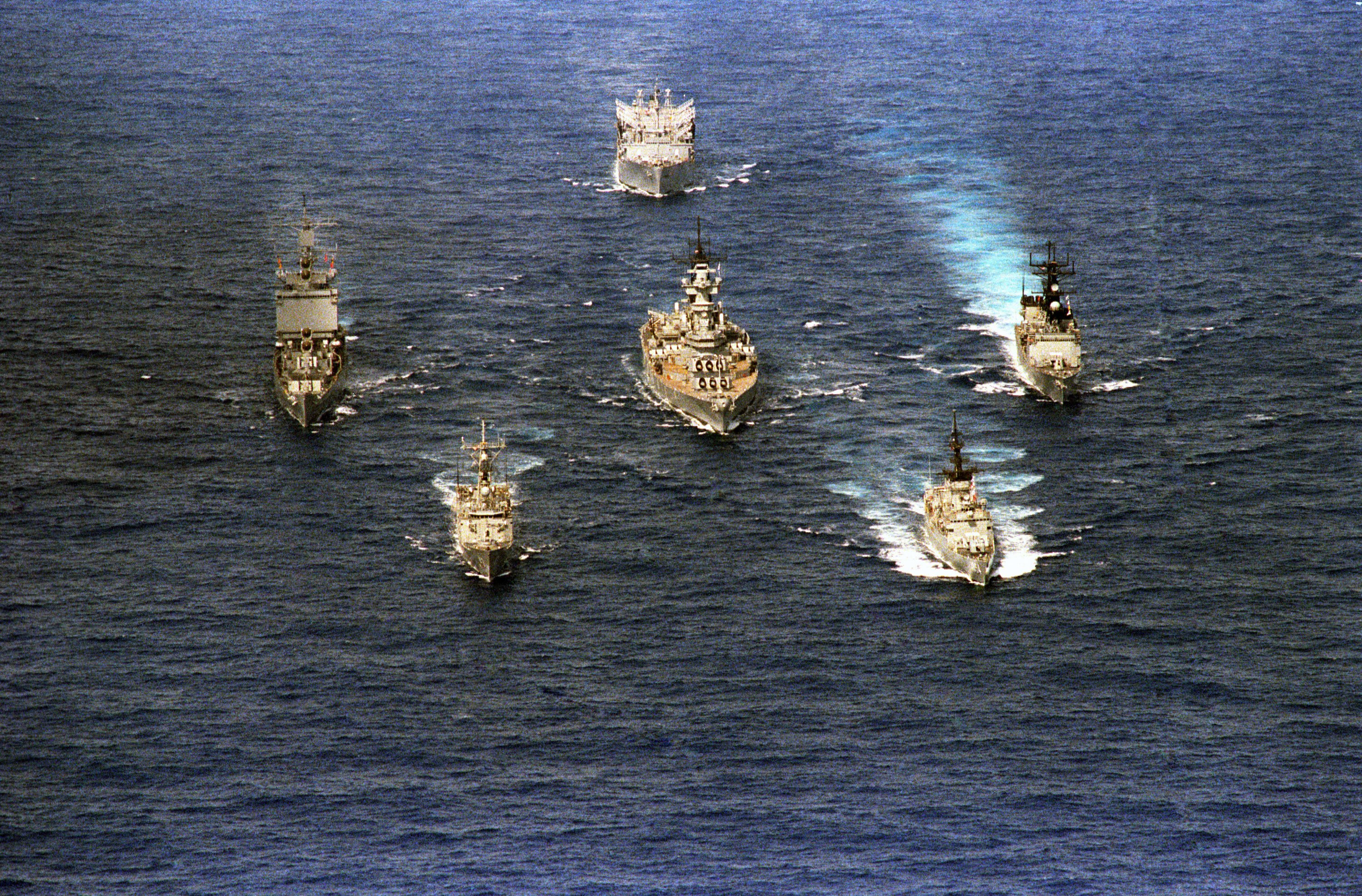 An aerial bow view of the first battleship battle group to deploy to the Western Pacific since the Korean War underway. The ships are, clockwise from top: replenishment oiler USS WABASH (AOR 5), destroyer USS MERRILL (DD 976), frigate USS GRAY (FF 1054), guided missile frigate USS THACH (FFG 43), nuclear-powered guided missile cruiser USS LONG BEACH (CGN 9) and the battleship USS NEW JERSEY (BB 62), center.